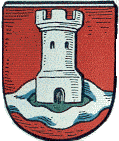 Coats of Arm of the former City of Pasing (today Municipial of Munich, Bavaria)